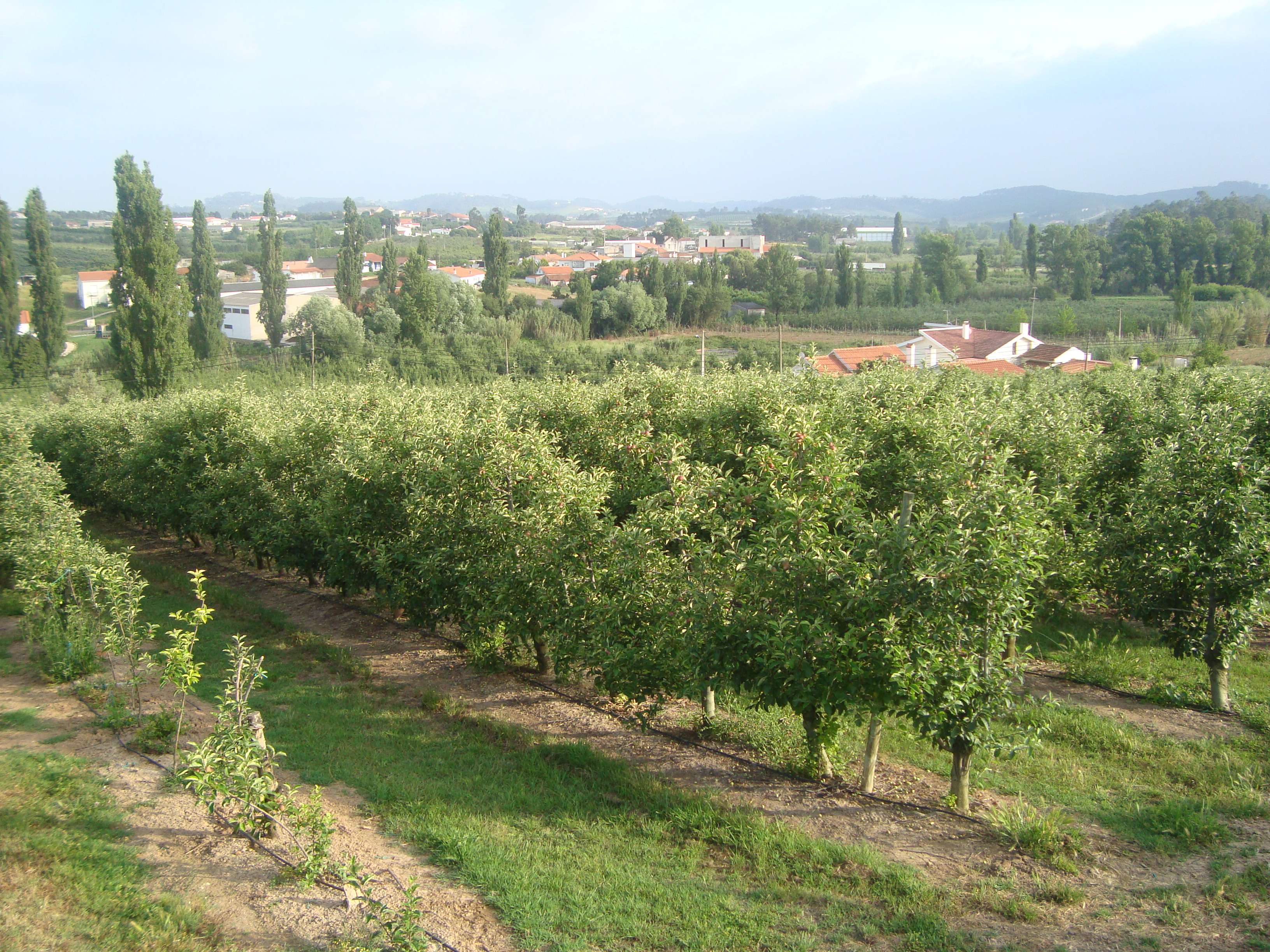 Apple orchard in Acipreste (2009)